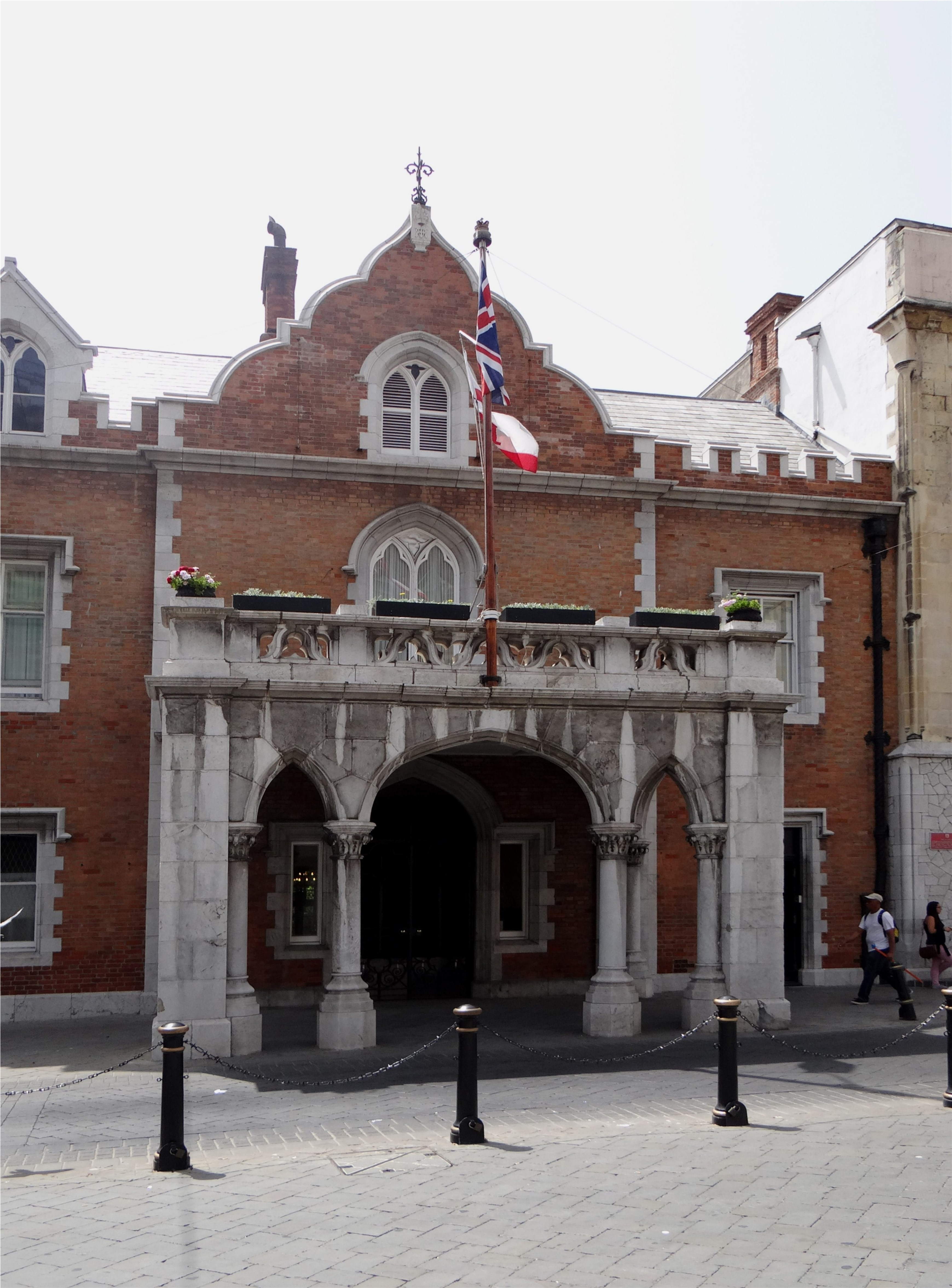 The Governor's House, Main Street, Gibraltar.